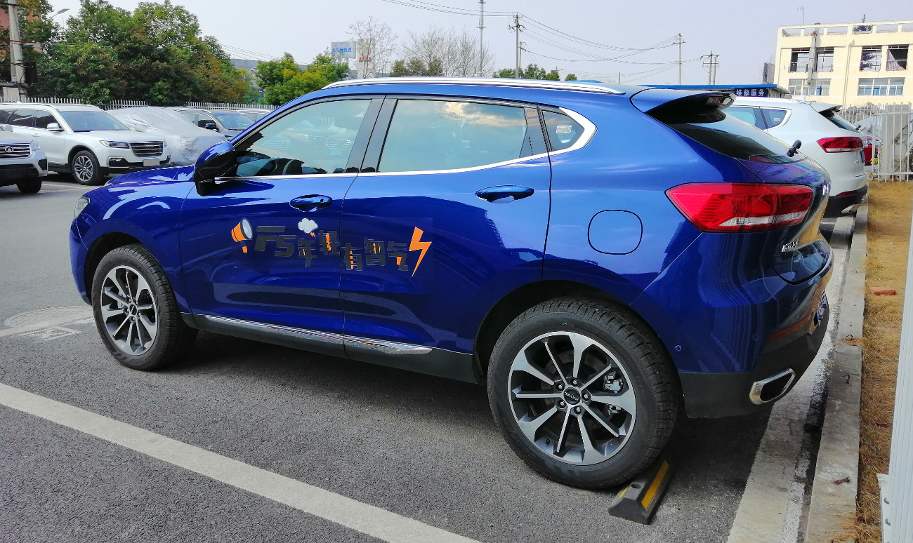 Haval F5 photographed in Hefei, Anhui province, China.